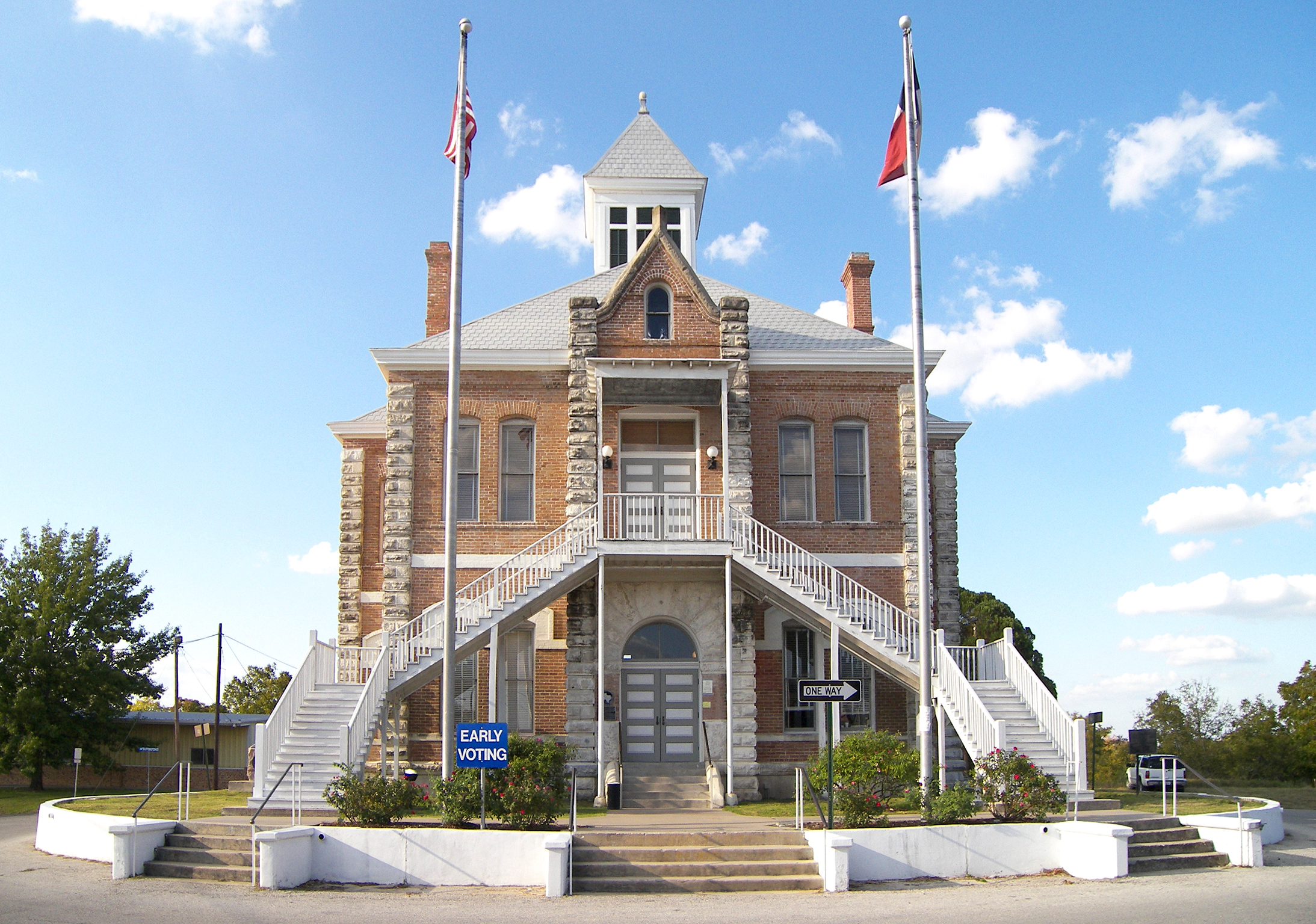 The Grimes County, Texas courthouse in Anderson, Texas, United States. The courthouse was designated a Recorded Texas Historic Landmark in 1965 and listed on the National Register of Historic Places on March 15, 1974 as part of the Anderson Historic District.